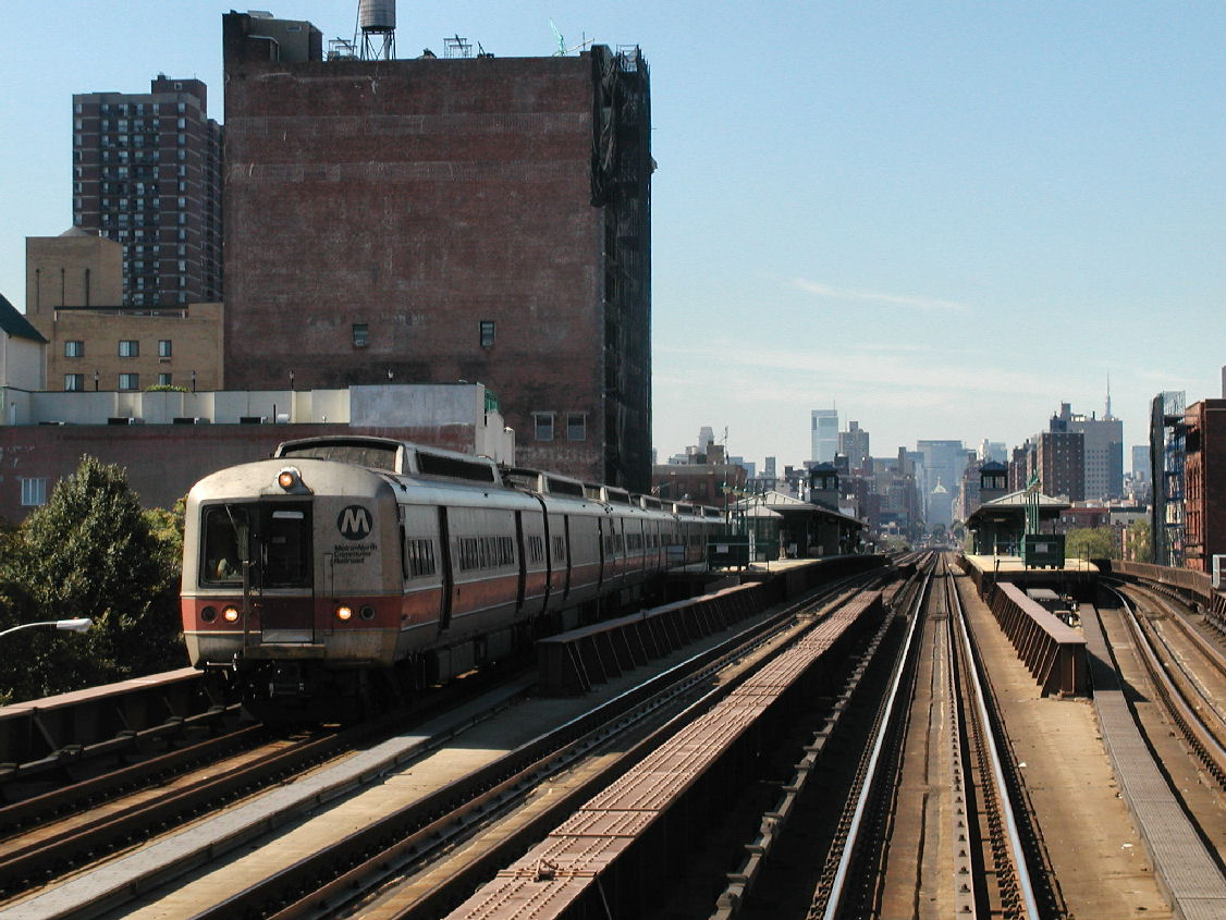 125th St Station in Harlem as seen from inbound MNRR train.